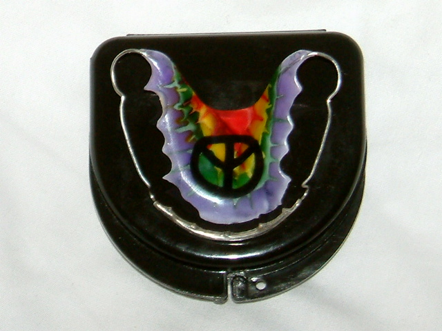 bottom (as worn) of an orthodontic retainer